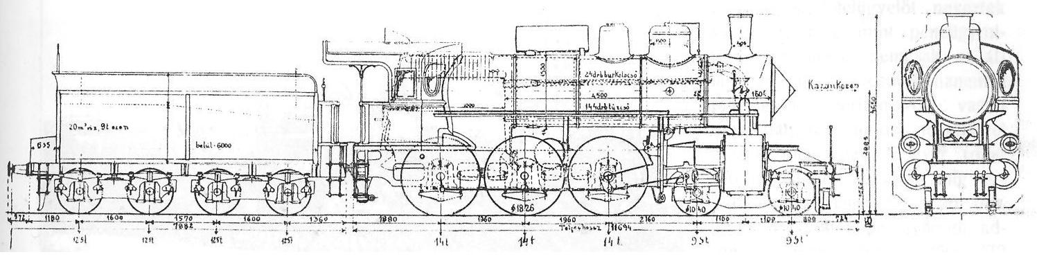 MAV Class 327 drawing